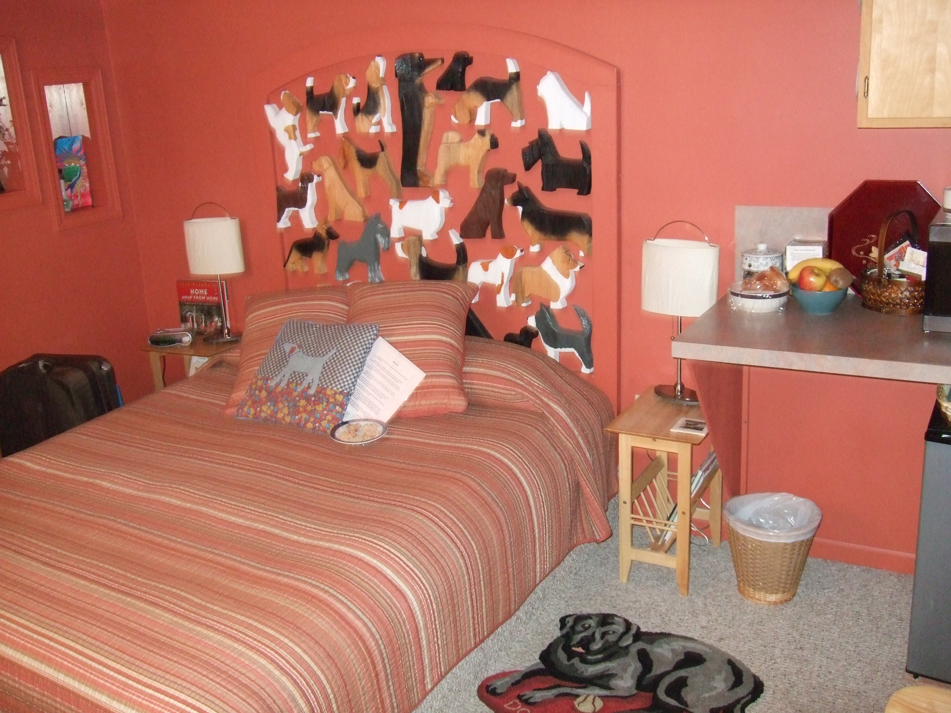 First Floor of Sweet Willy, Dog Park Park Inn, Idaho, USA.